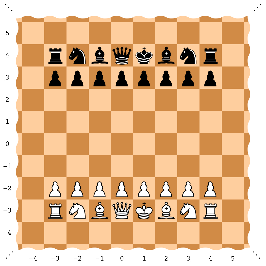 Diagram of a standard chess starting position on an infinite chessboard. The version proposed by Tim Converse and very similar to that by Jianying Ji. [1]